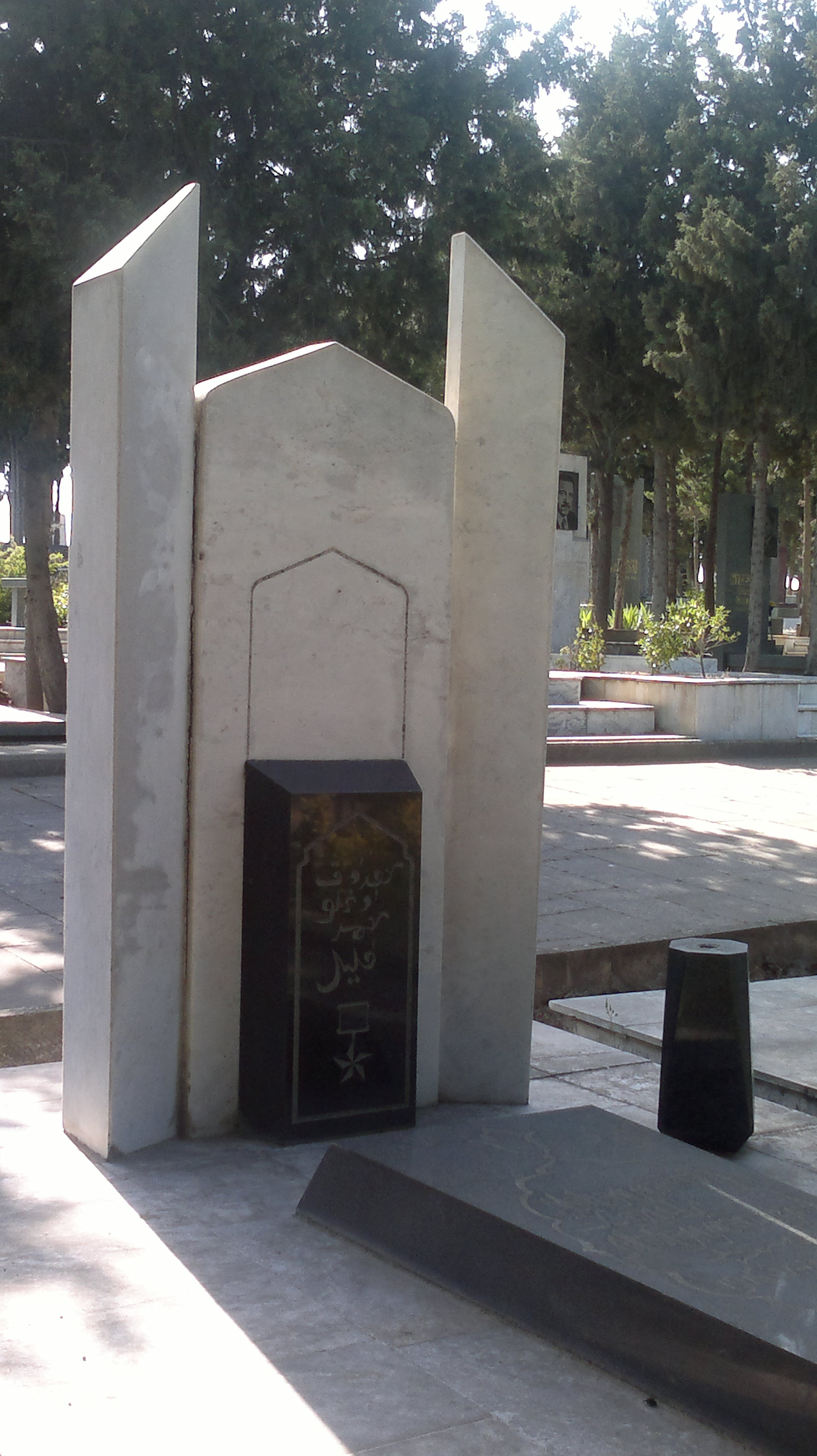 Burial of Khalil Mammadov at II Alley of Honor (Azerbaijan)